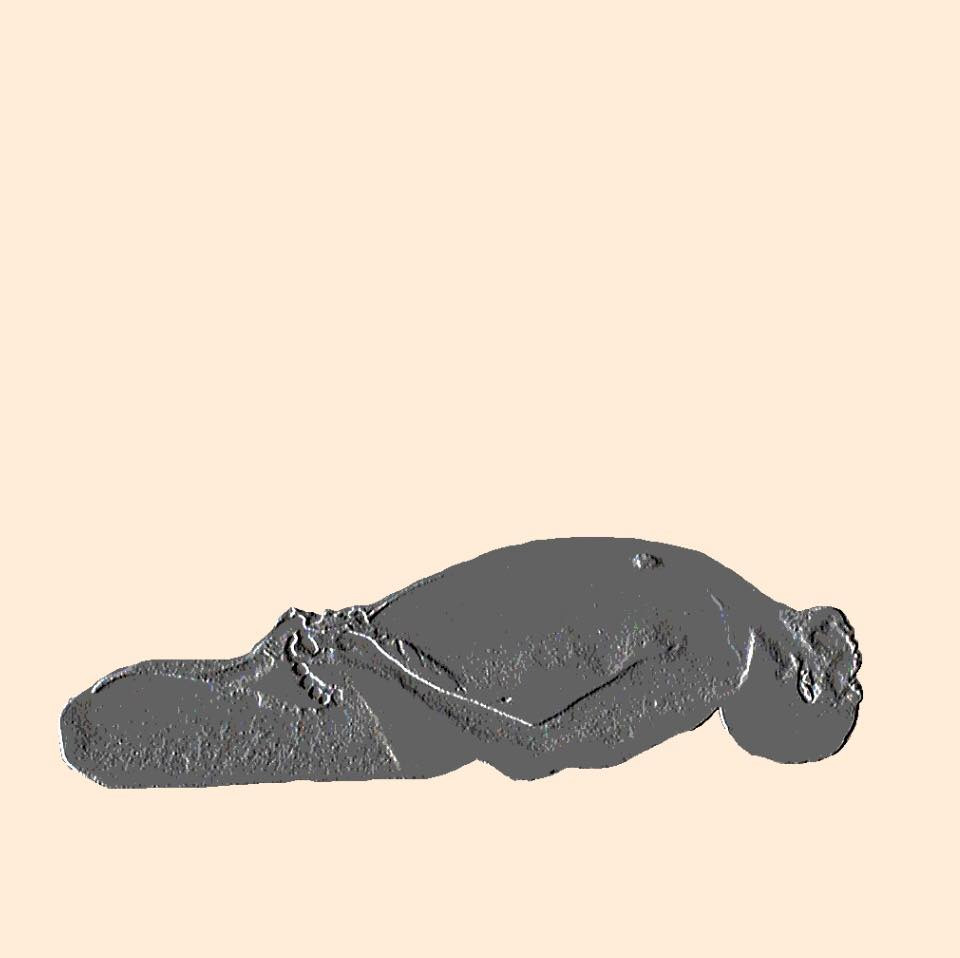 Matsyāsana ◦ Fish I yoga āsana. This image-processed file is not compliant with the WikiProject Yoga image guidelines and must not be used in any Wikipedia Yoga article.